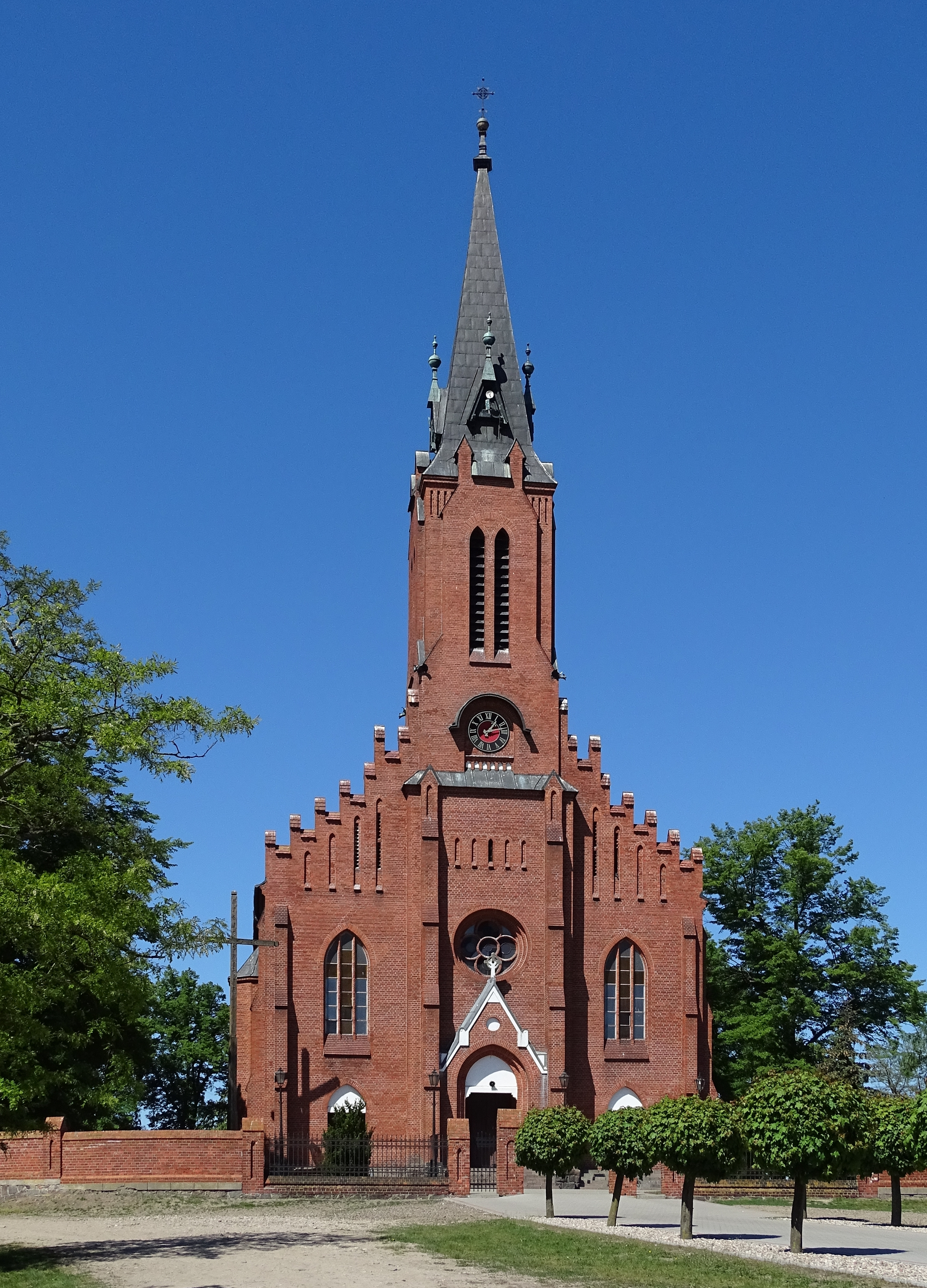 Bąków Górny, Gmina Zduny, within Łowicz County, Łódź Voivodeship, in central Poland. Parish church.